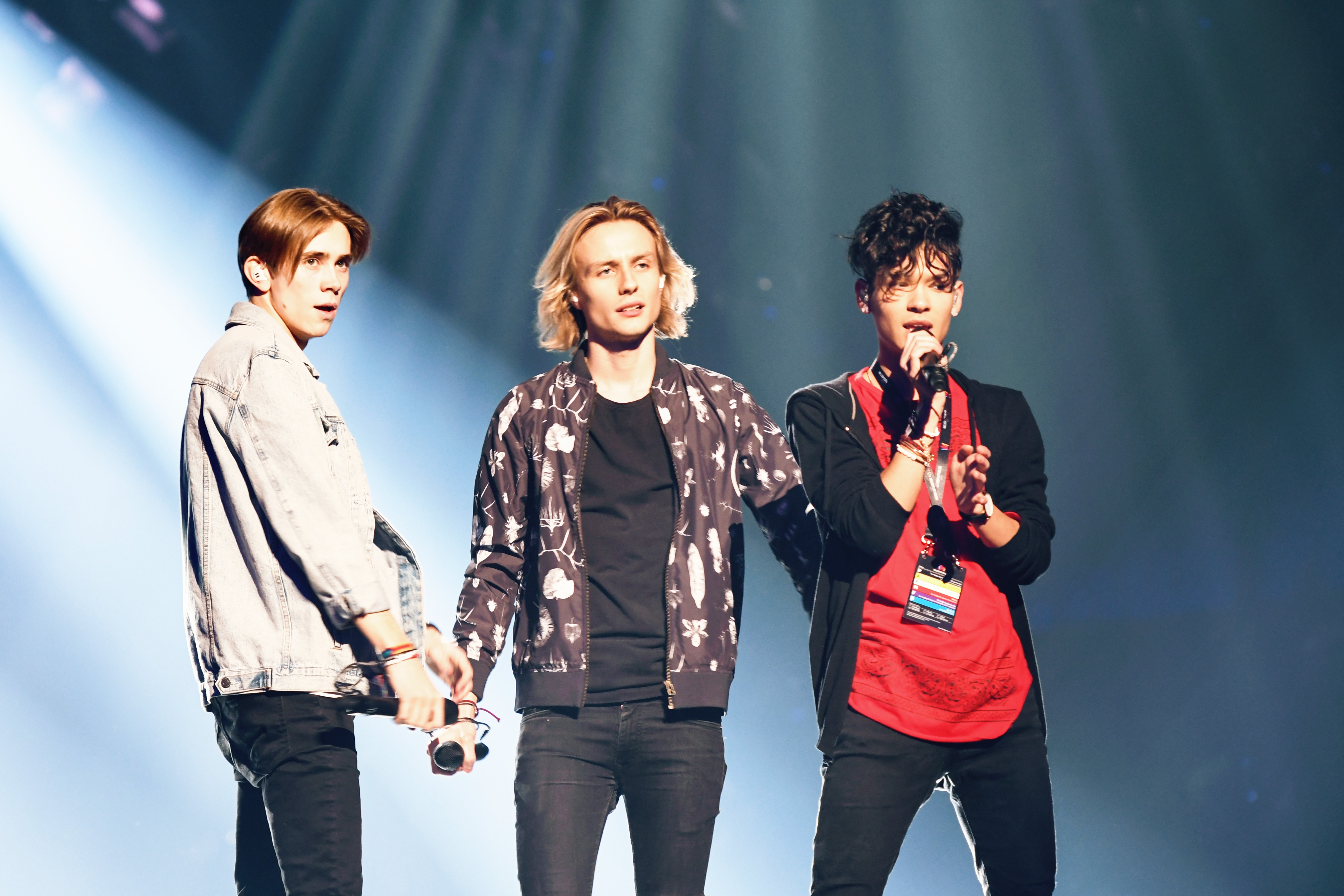 FO&O @Melodifestivalen 2017